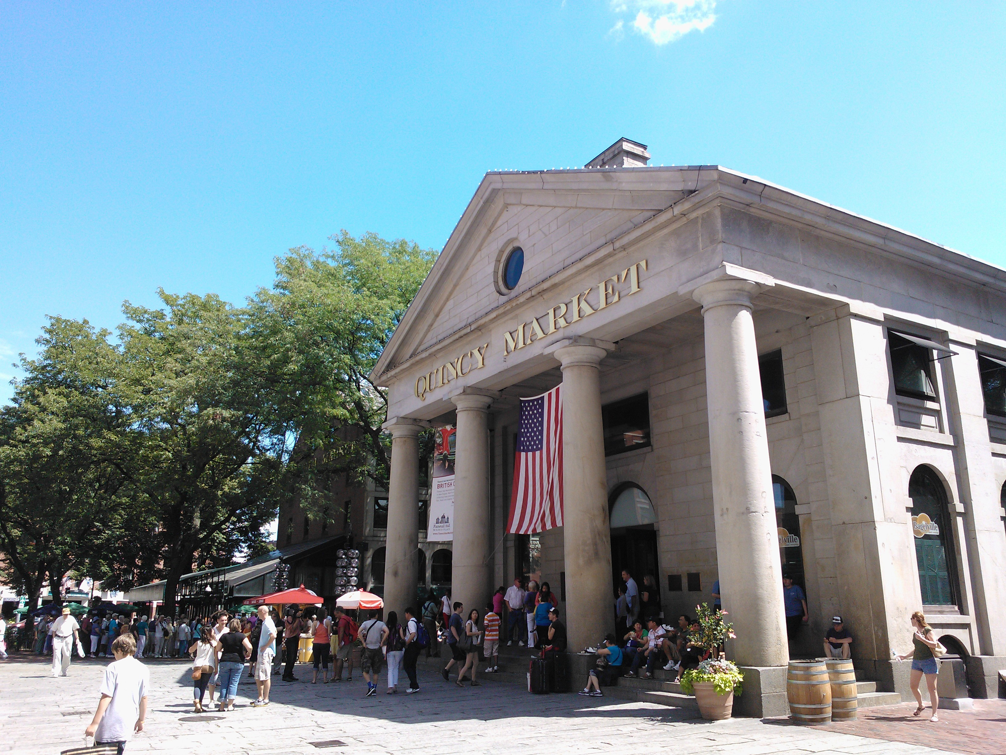 Quincy Market in Faneuil Hall.